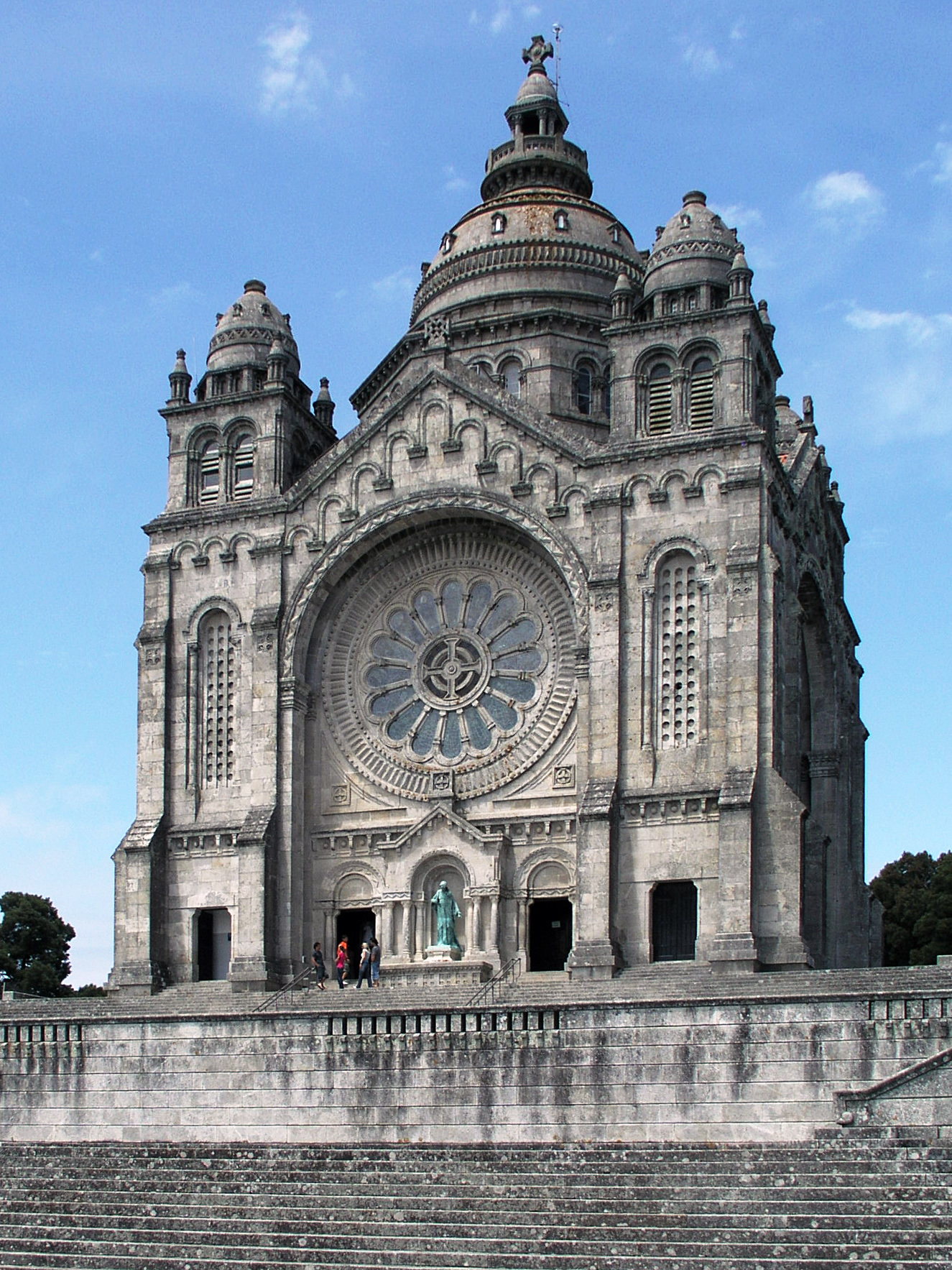 Sanctuary of Santa Luzia, Viana do Castelo, Portugal: front view.